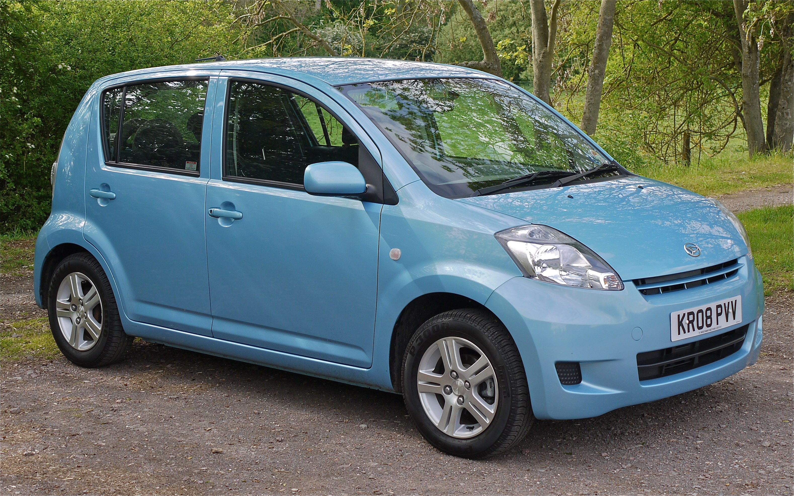 Nearly 3 years of faultless service, it will be replaced in June with a Hyundai i10. Update : It is now September. The Hyundai is that bad it is being returned to Motability. We really miss the Daihatsu. As Daihatsu cars are no longer available in the UK we have chosen a Suzuki Splash. Panasonic G1 14-45 Lens